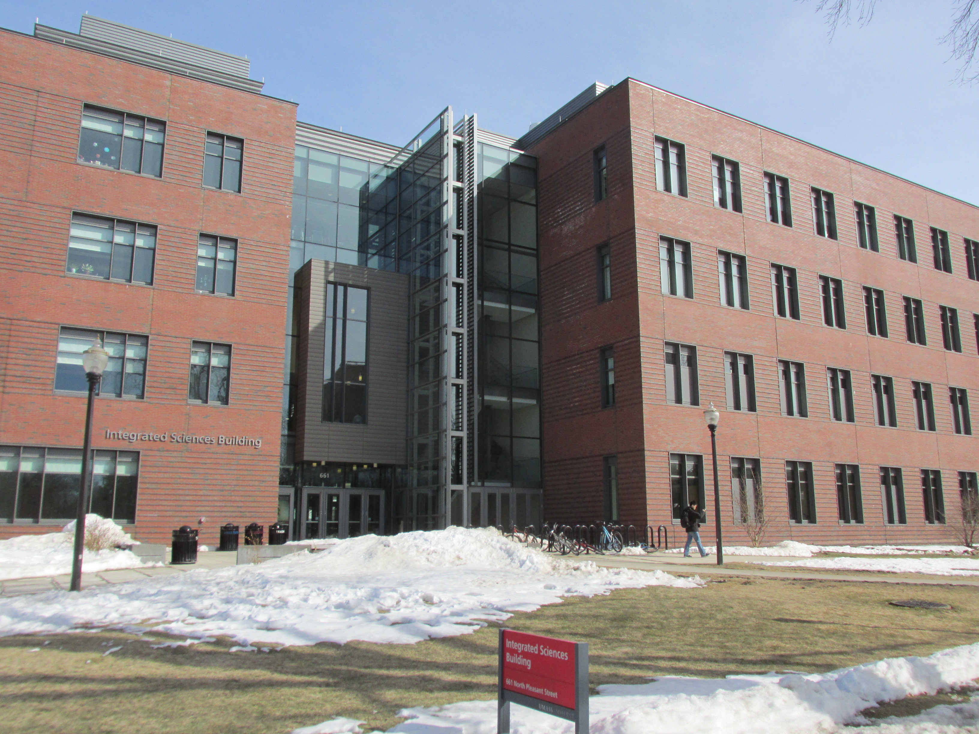 Integrated Sciences Building, College of Natural Science, University of Massachusetts Amherst, Amherst Massachusetts